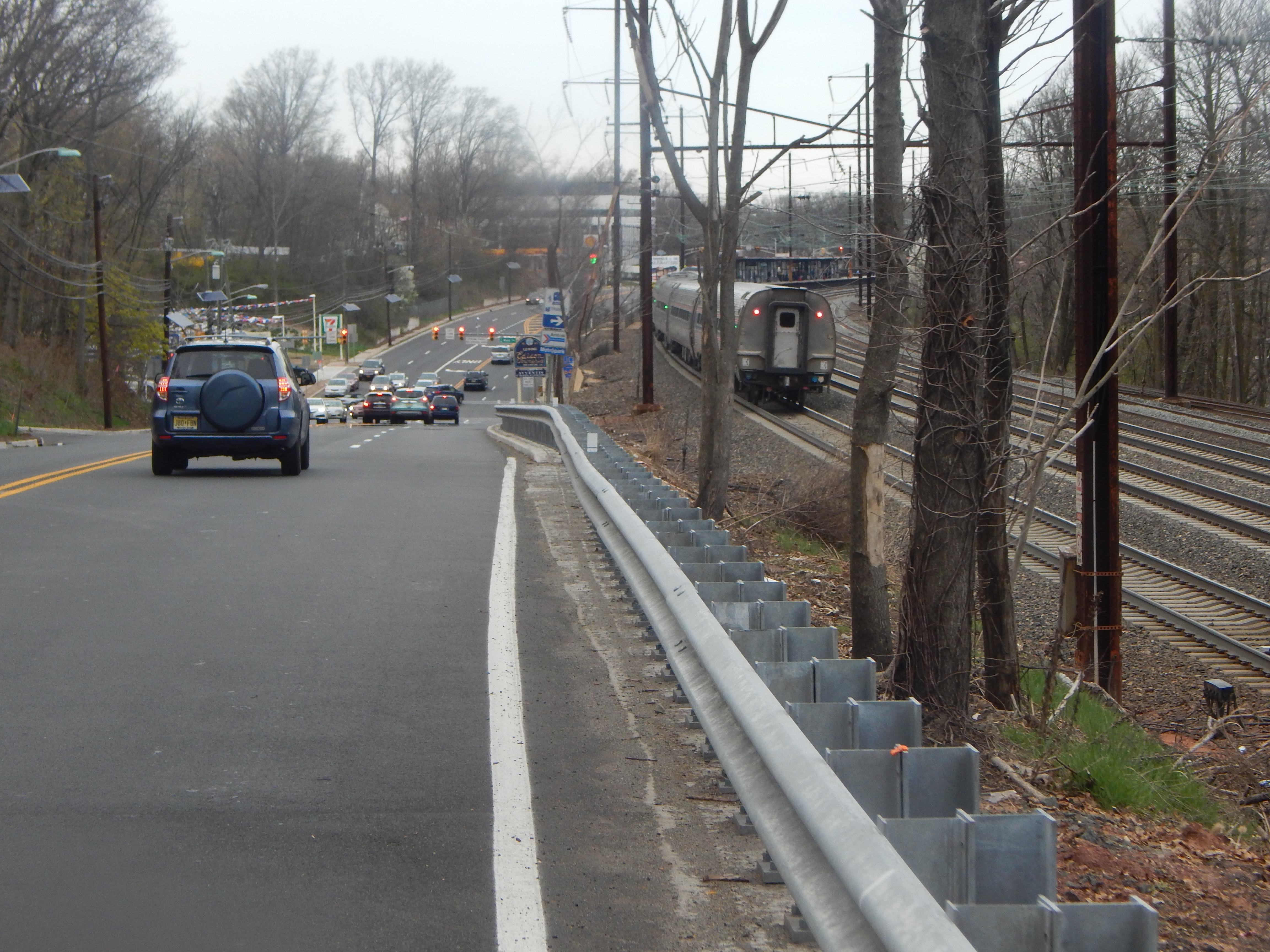 Route 27 approaching Metropark station in Woodbridge, New Jersey.